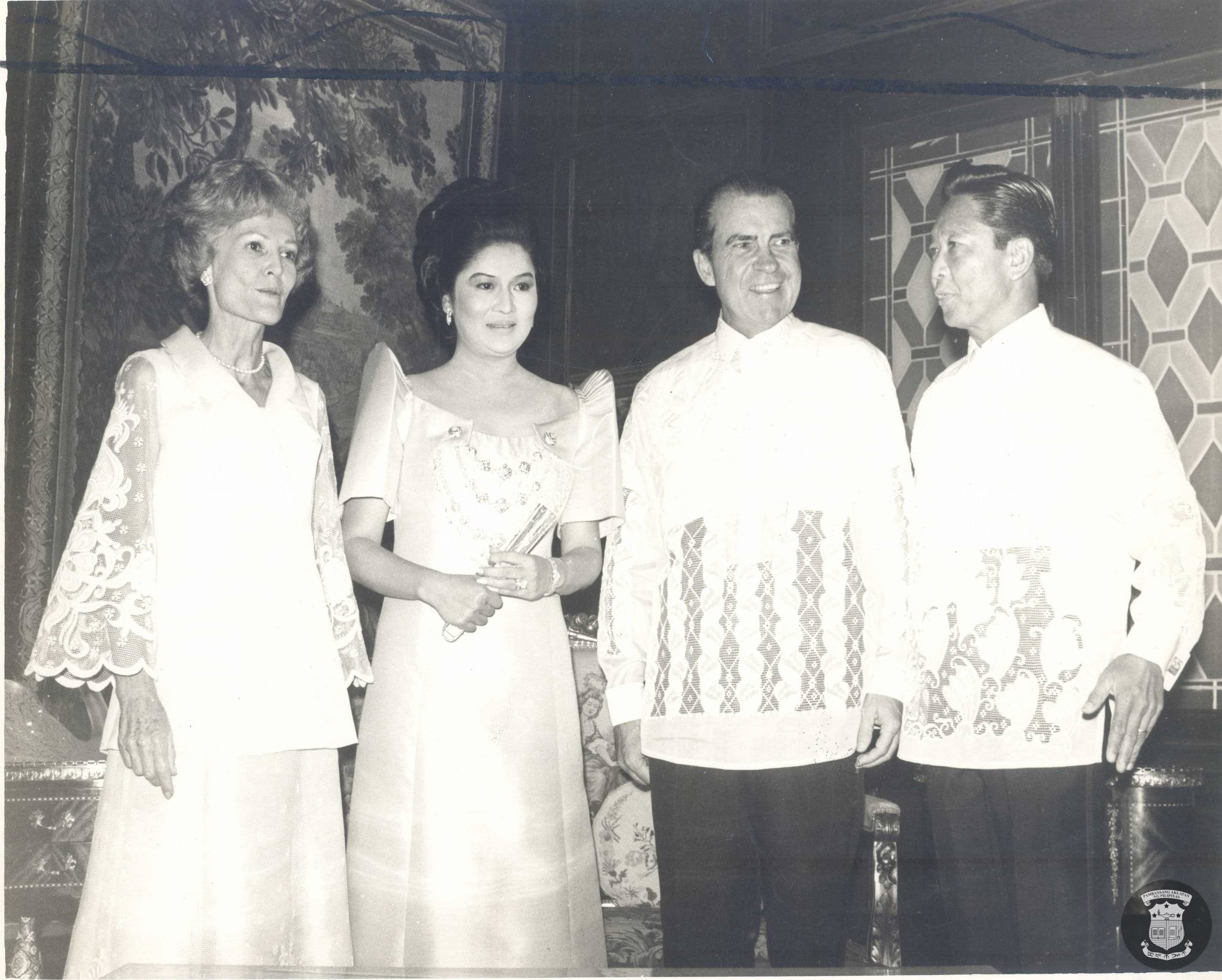 Photo of former Philippine President Ferdinand Marcos with his wife Imelda, United States President Richard Nixon and his wife Pat. Photo circa 1969.